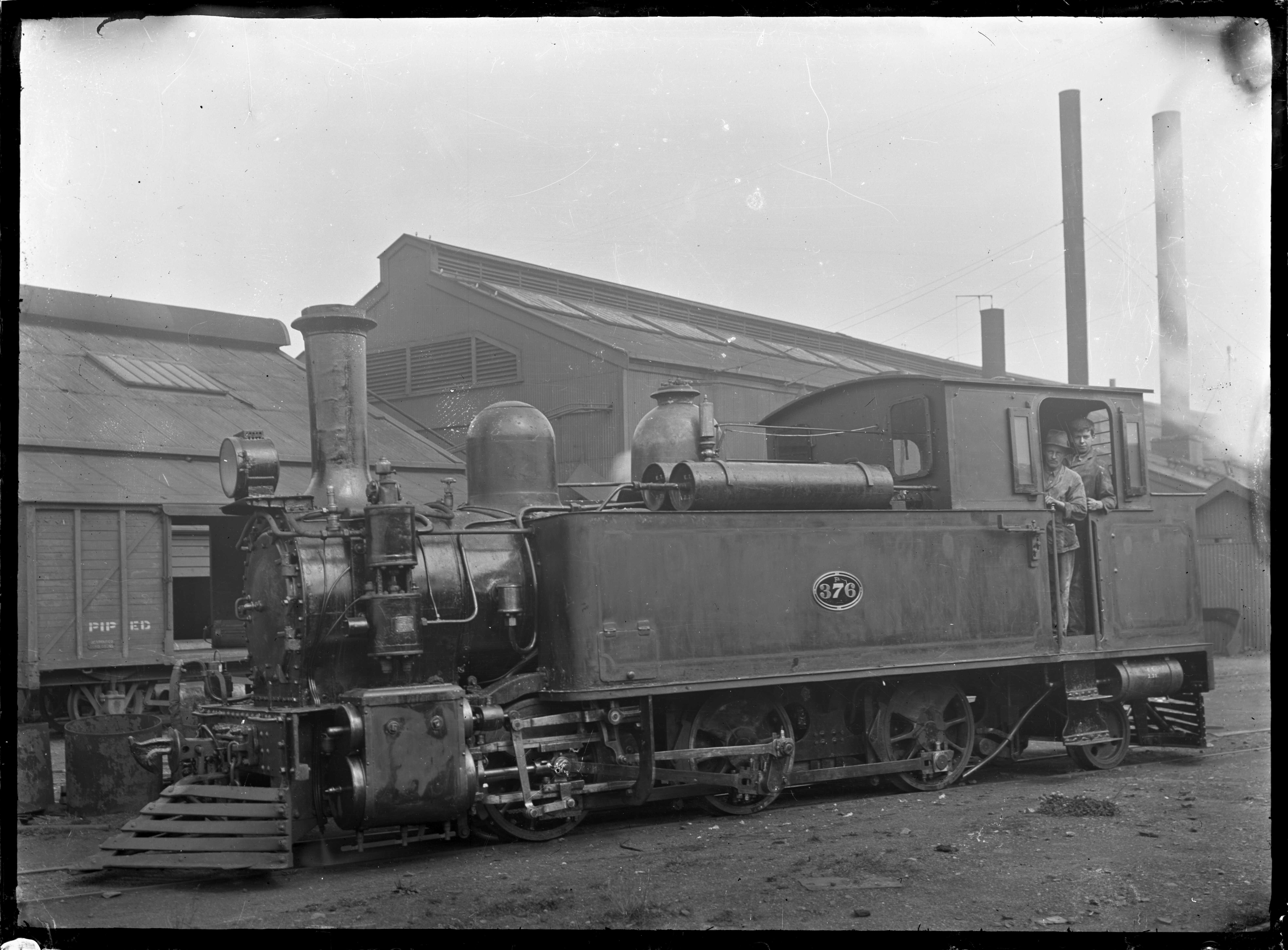 No 376, Fa class steam locomotive (0-6-2T). Photograph taken by Albert Percy Godber between 1903 and 1931.